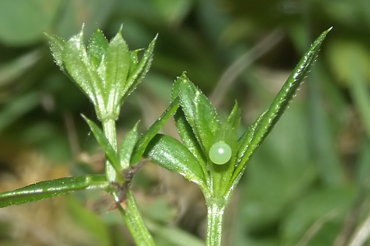 Hummingbird Hawk-moth